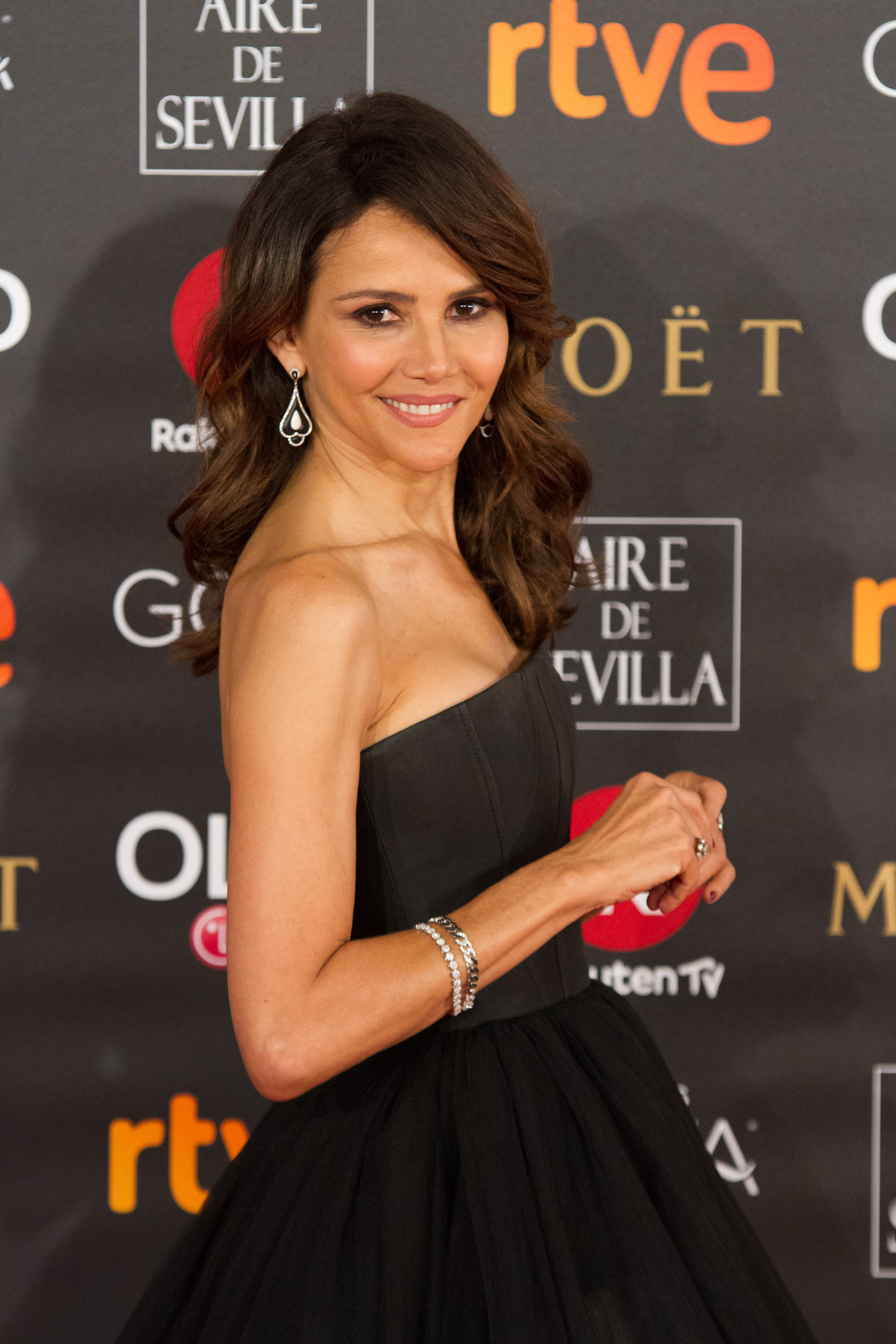 32nd Goya Awards, 2018.